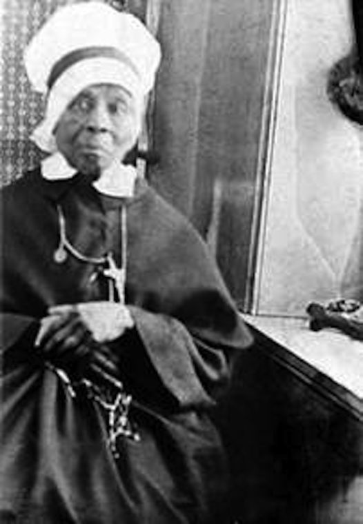 Mary Lange, O.S.P. (1794-1882)